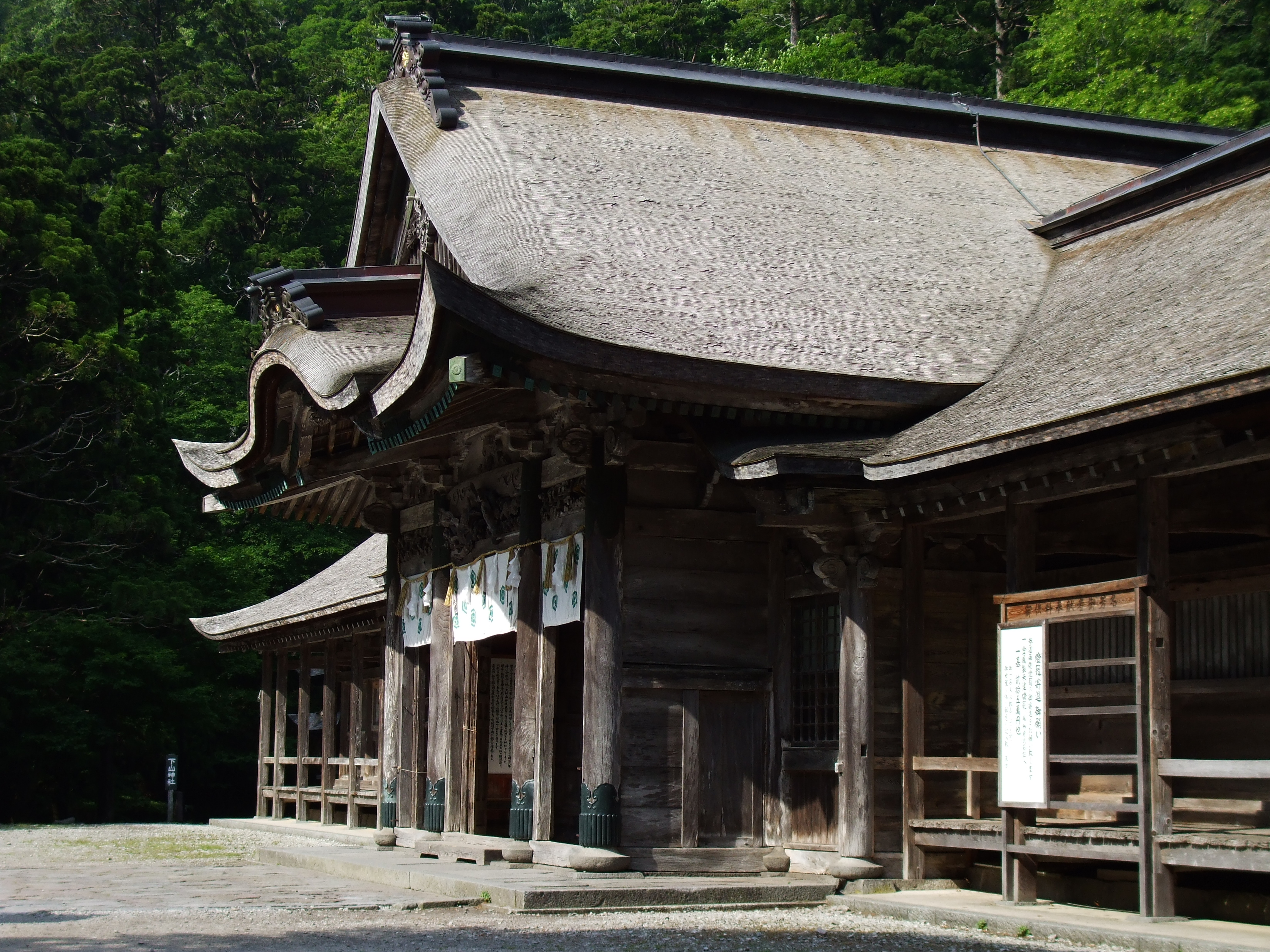 Ogami Shrine, at the foot of Mount Daisen, Tottori, Honshu, Japan.